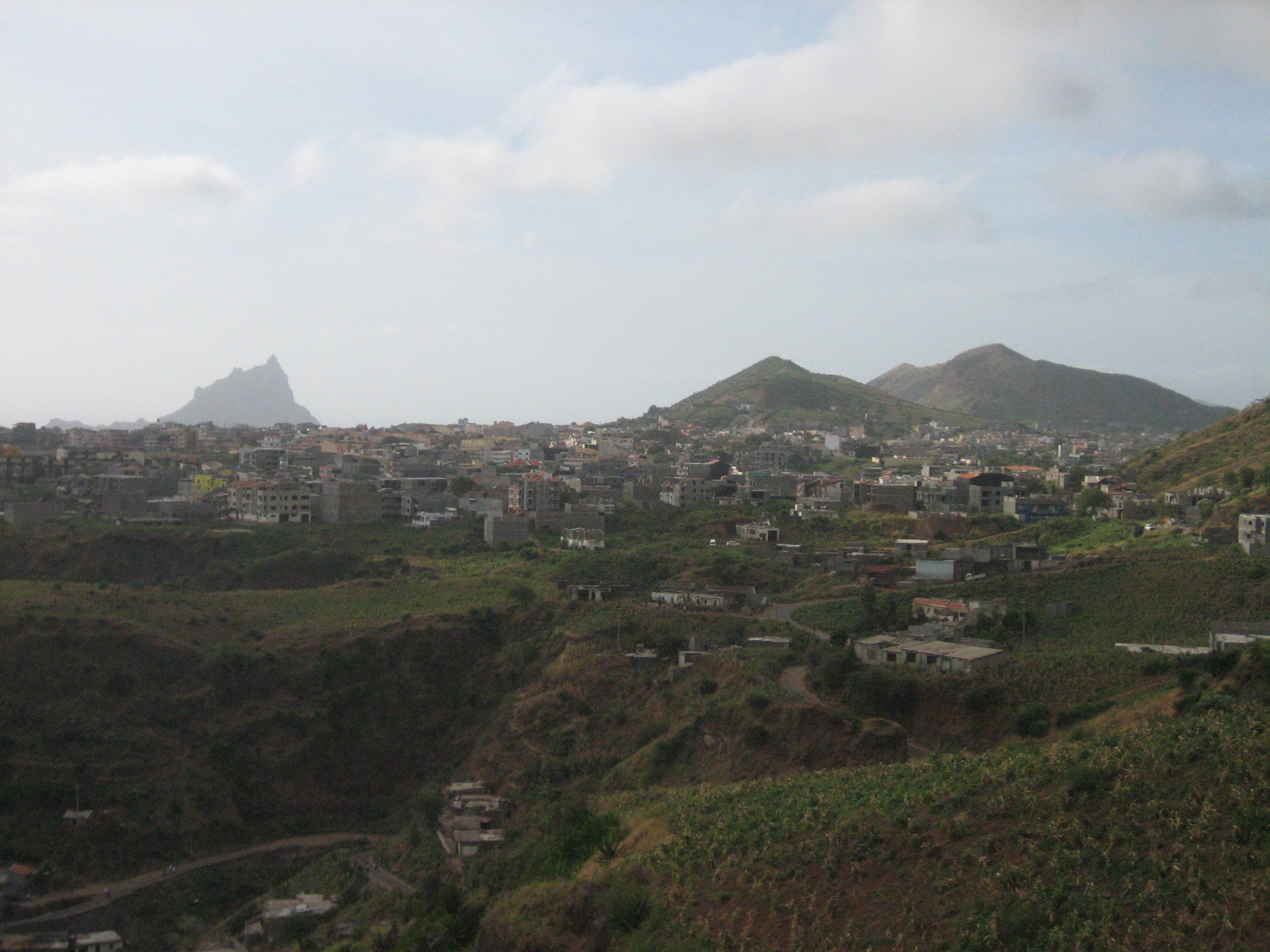 View to the city of Assomada on Santiago, Cape Verde